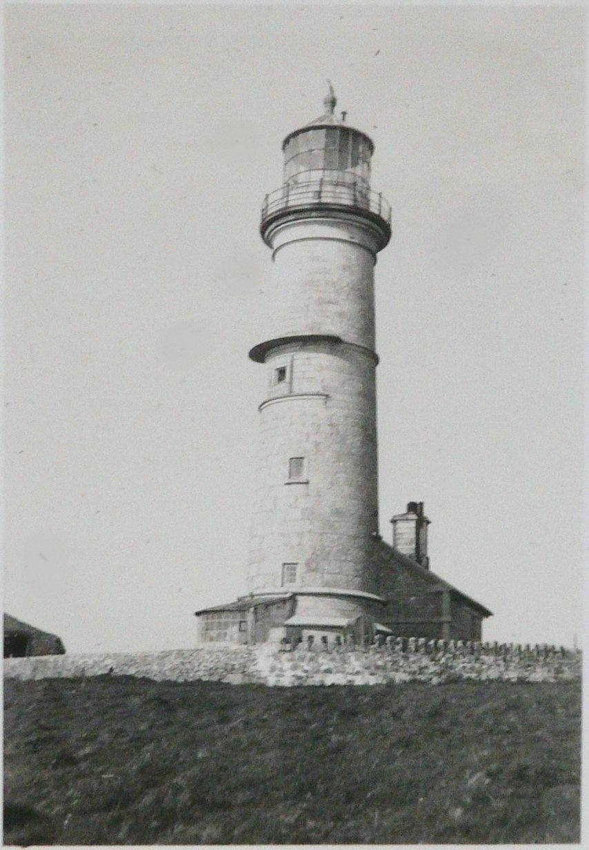 The Old Light, Lundy in 1943. Photographed by my father George W Baker after he had been appointed a sub-lieutenant in the RNVR (Royal Navy Volunteer Reserves). Initially, he was based at Felixstowe in Suffolk before being transferred to Falmouth to serve on RML... more